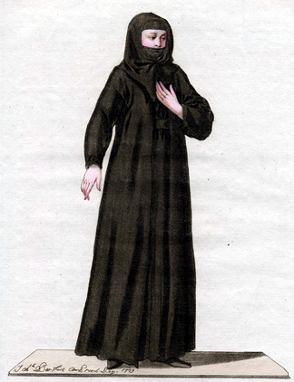 Painting of a Nestorian nun.